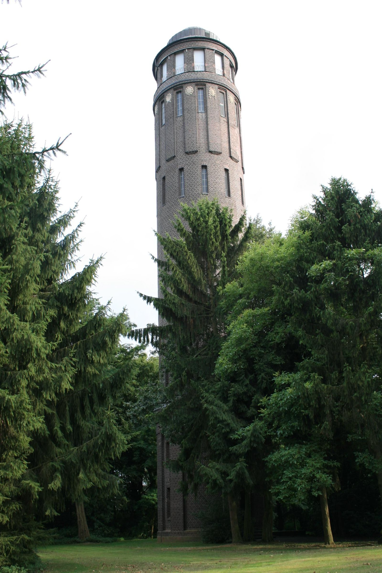 Cultural heritage monument No. M 021 in Mönchengladbach